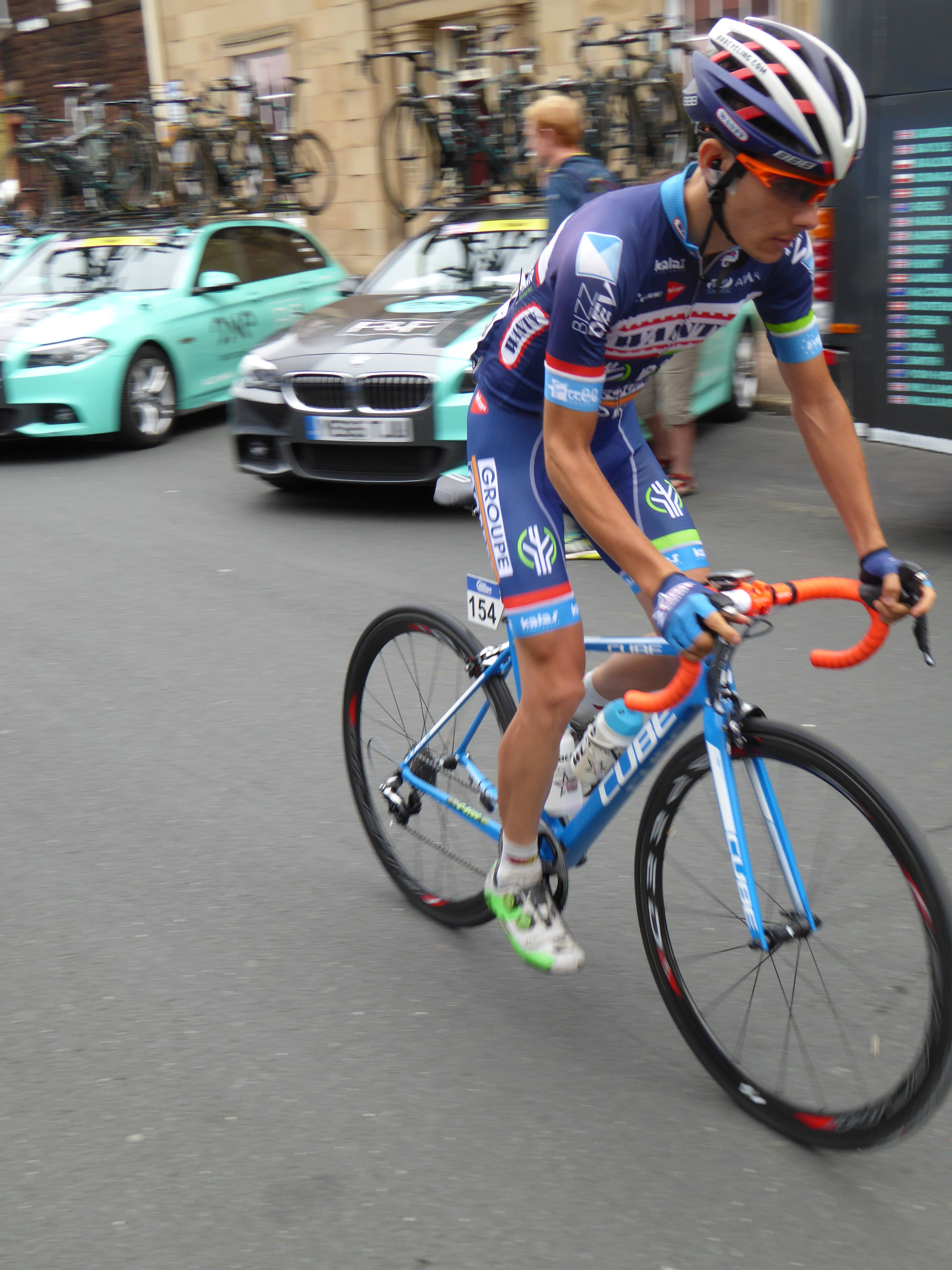 Guillaume Martin (Wanty-Groupe Gobert), pictured before Stage 2 of the 2016 Tour of Britain in Carlisle on 5 September 2016.